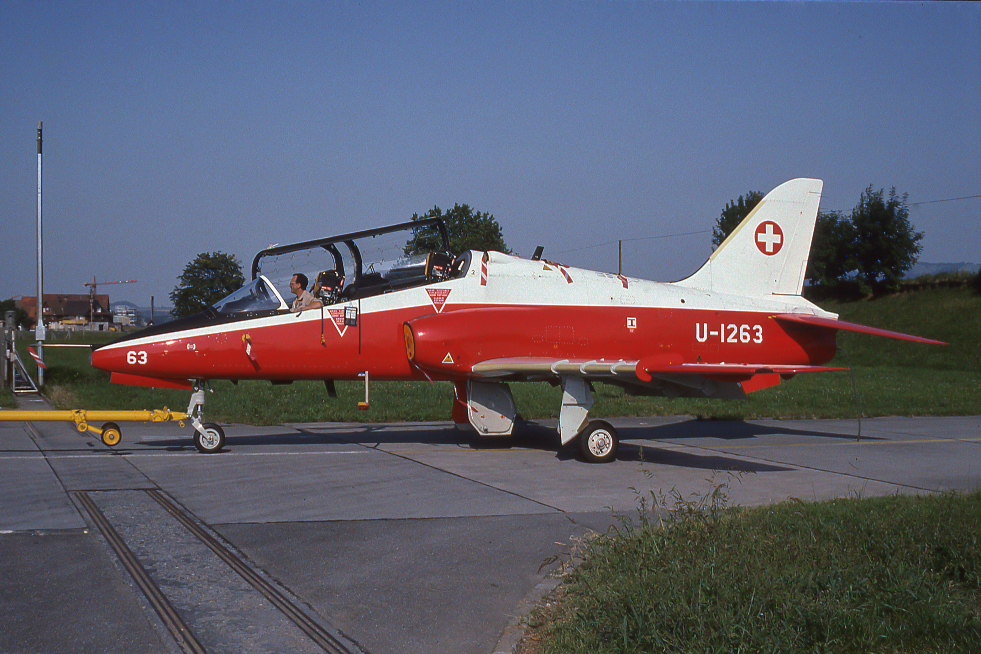 Hawk T66 in his first year of flying with the Swiss Air Force (Emmen, 1990)